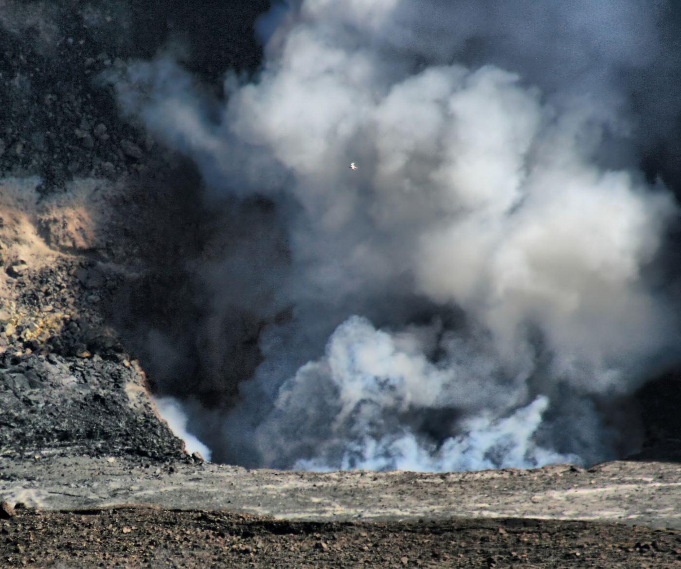 White-tailed Tropicbird (koae kea) is flying directly over the Halema`uma`u vent, Kīlauea . No person would survive such an encounter, but small birds somehow do. The birds make their nests in the crater walls and did not bother to change their habit even after the latest eruption episode of Halema`uma`u vent began in March of 2008